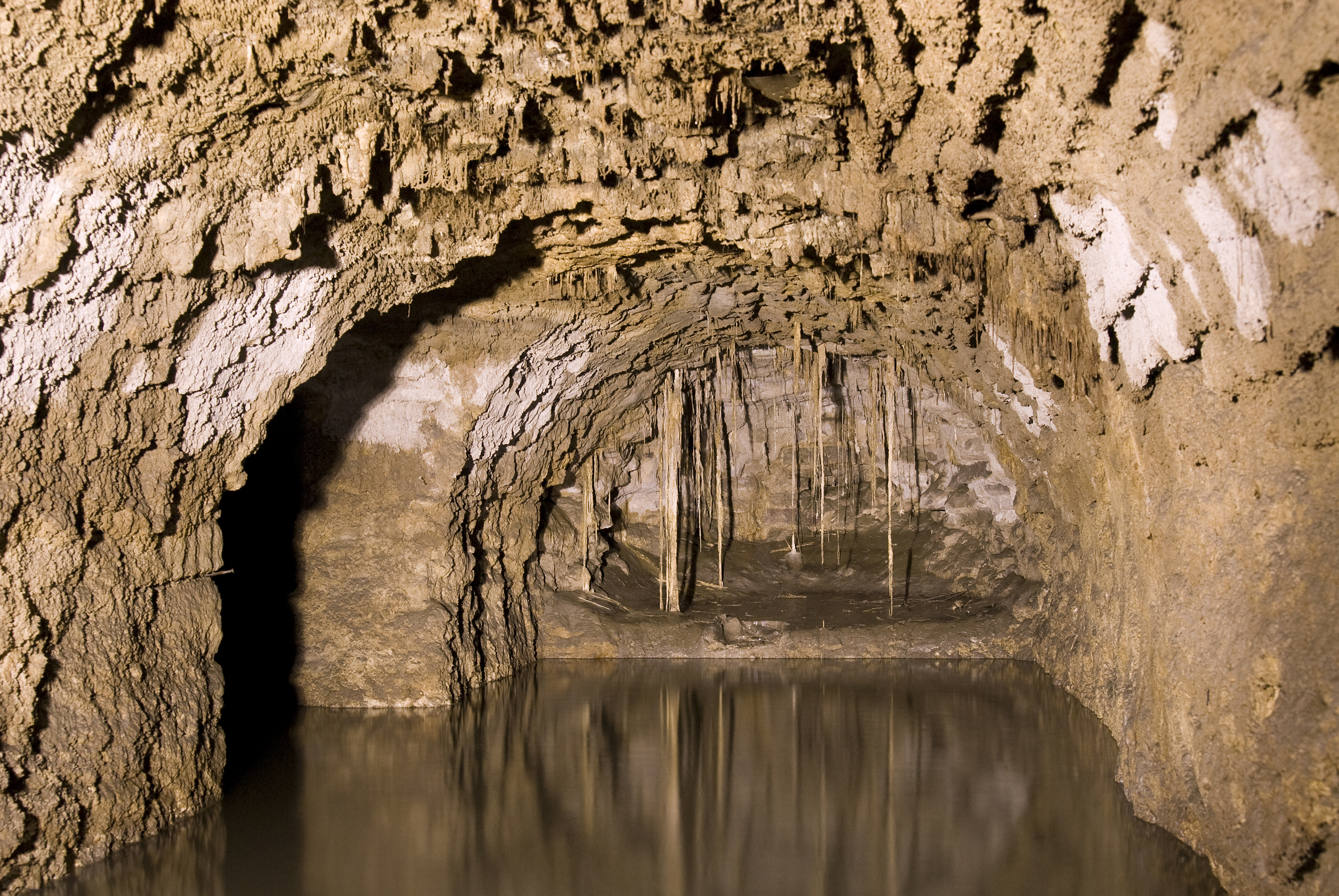 Inside view of Victoria bastion in Narva